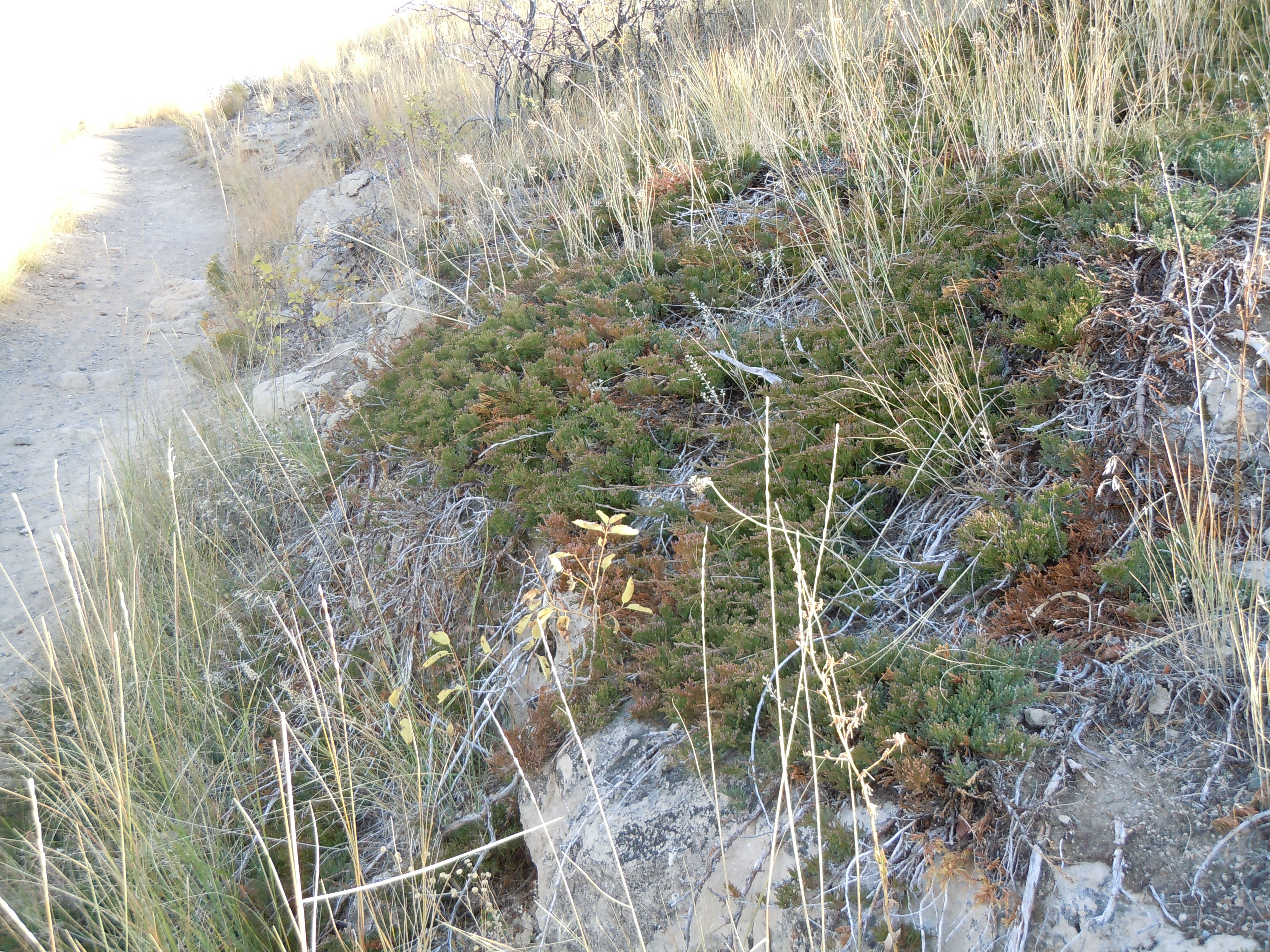 Creeping Juniper Juniperus horizontalis is found mostly on the west facing slopes of Burke Park, along with Rocky Mountain and Common Junipers.